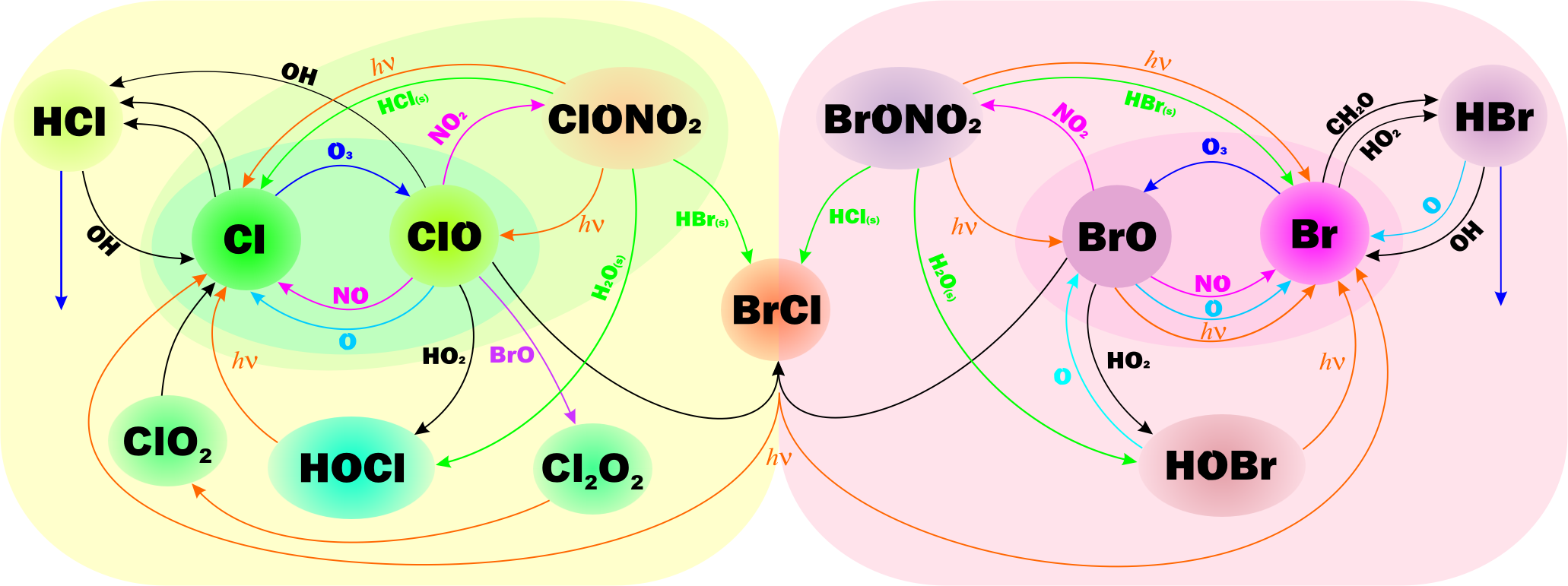 Schematic reaction mechanism of the halogen transformations in the stratosphere